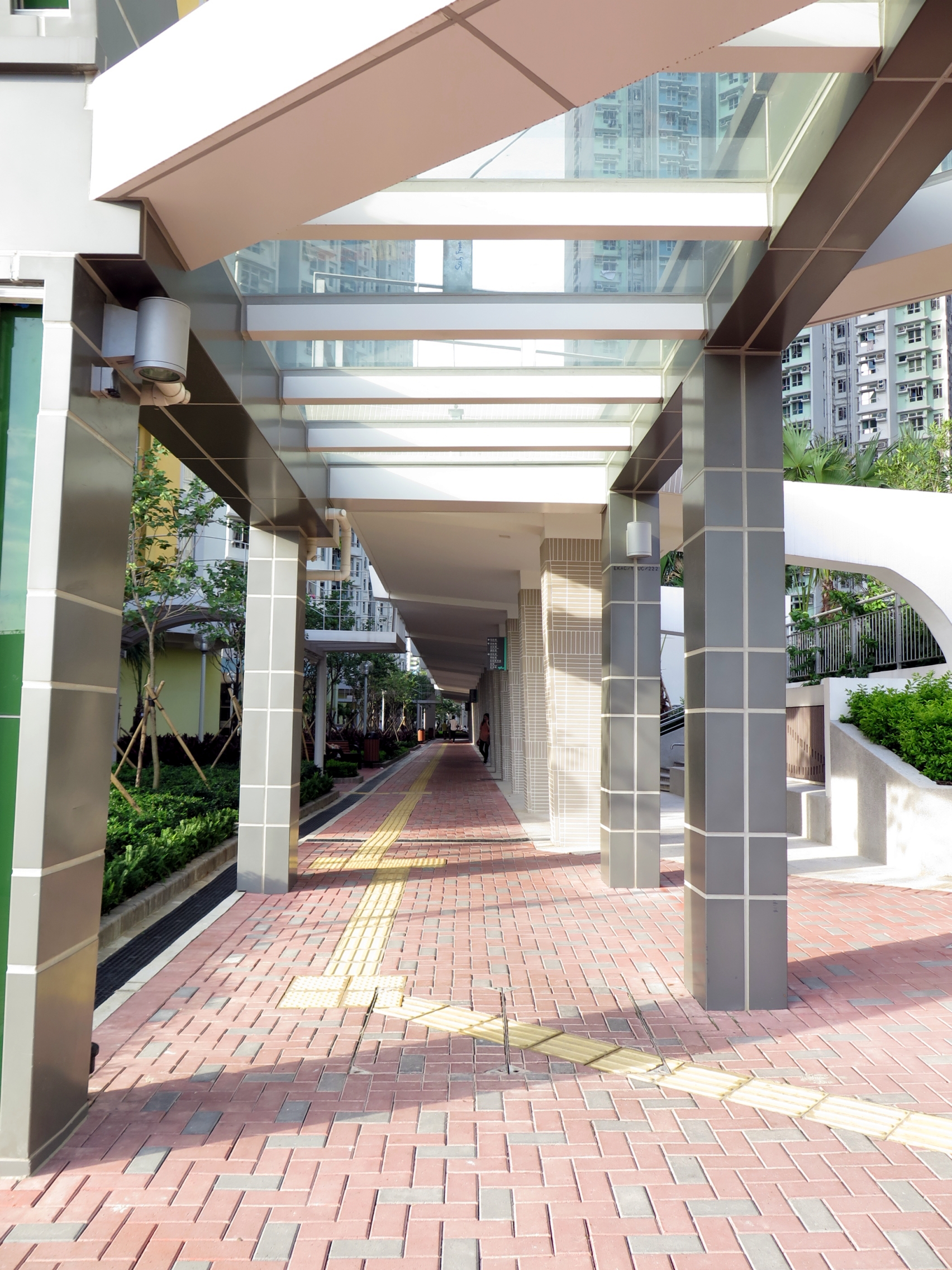 Kai Ching Estate Coverway